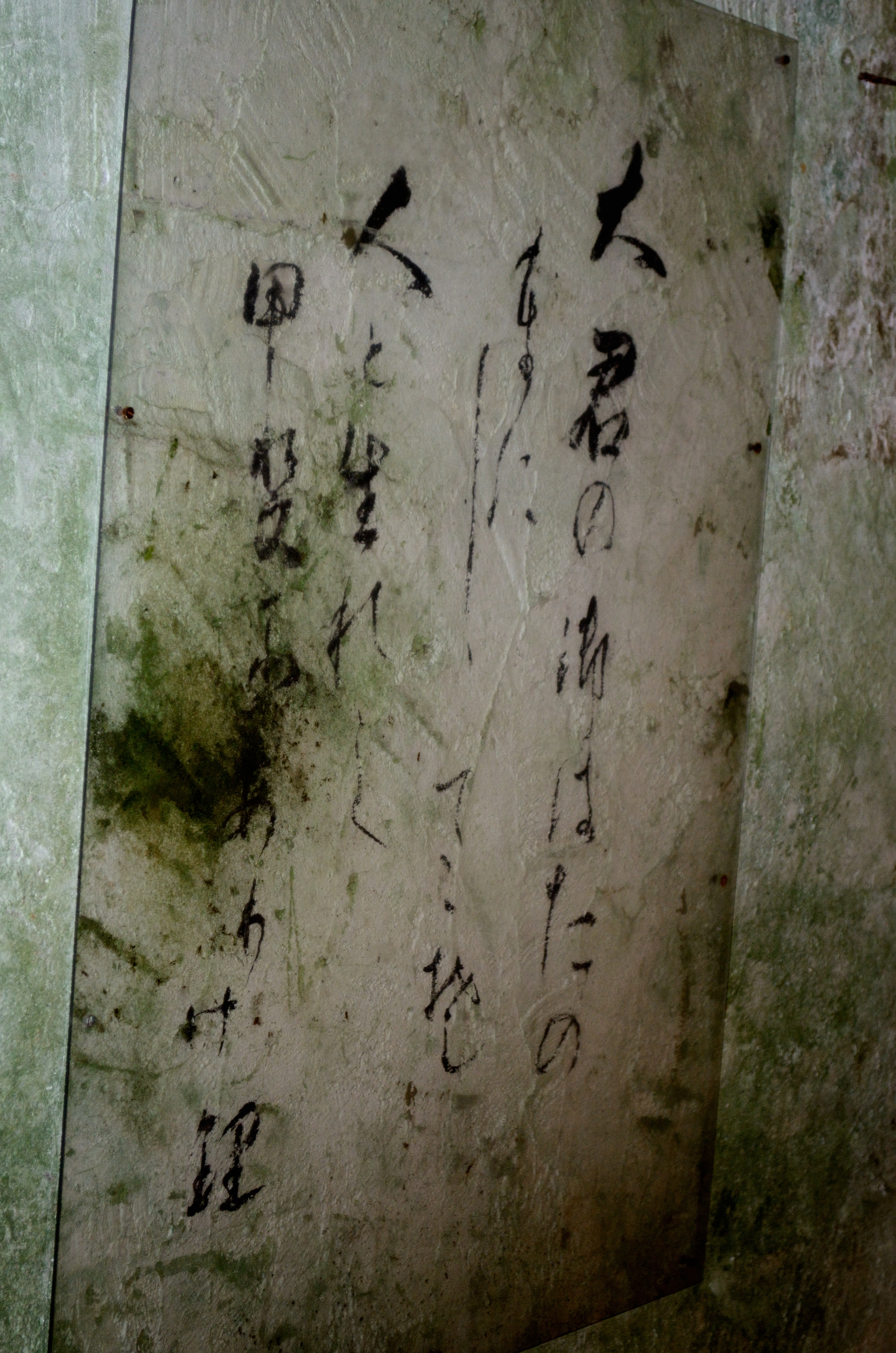 Death poem of Admiral ŌTA Minoru of the Imperial Japanese Navy, written on the wall of the room where he committed suicide.